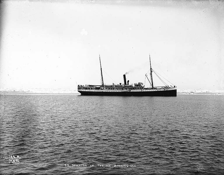 Caption on image: "S.S. Senator on the ice Behring Sea" Original image in Hegg Album 17, page 24 . Original photograph by Eric A. Hegg 1498; copied by Webster and Stevens 123.A Subjects (LCTGM): Ships--Alaska; Ice--Alaska; Oceans--Alaska Subjects (LCSH): Senator (Ship); Bering Sea